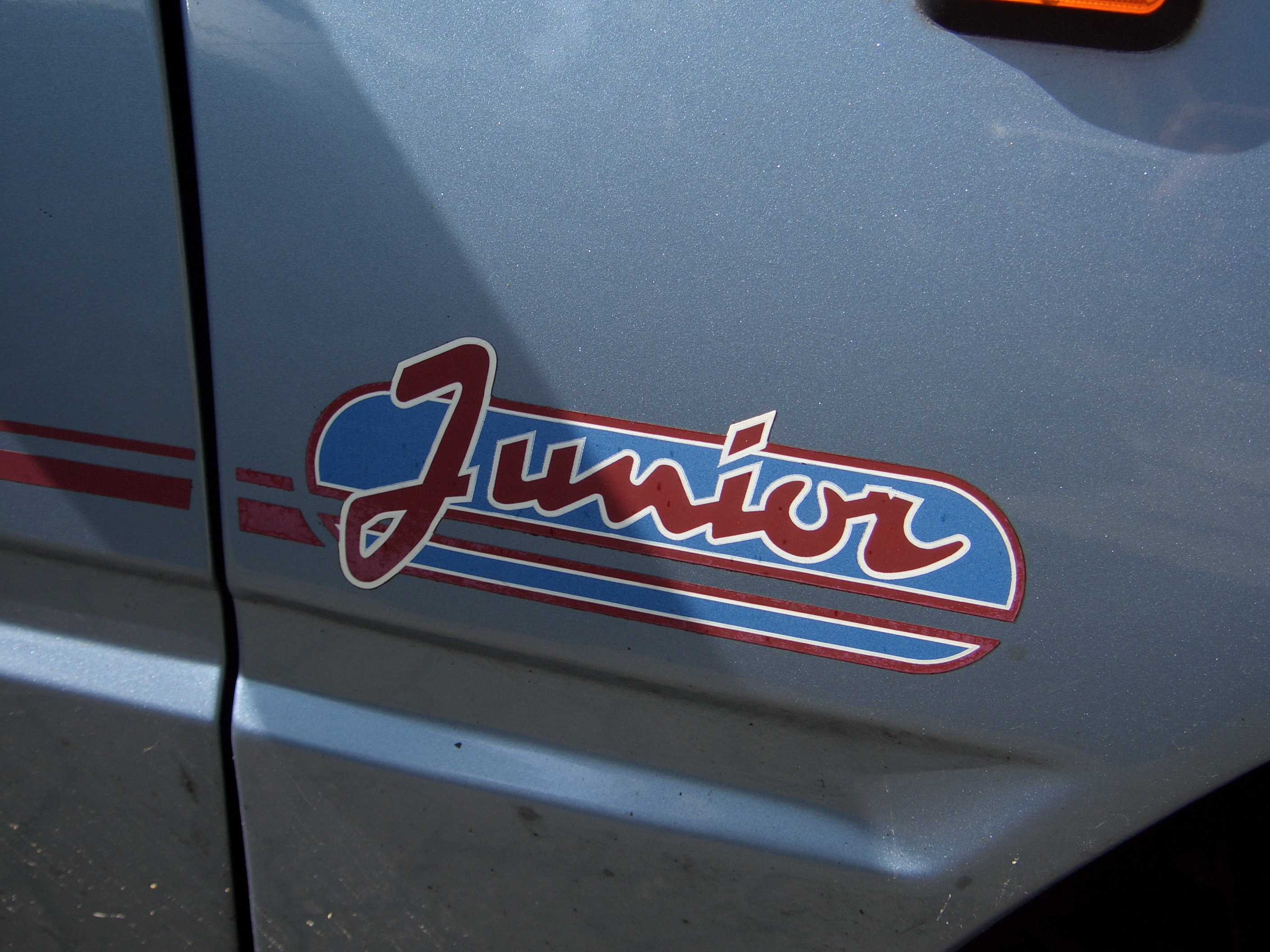 Peugeot 205, Gen2, 1990-1996, JUNIOR option, right front fender